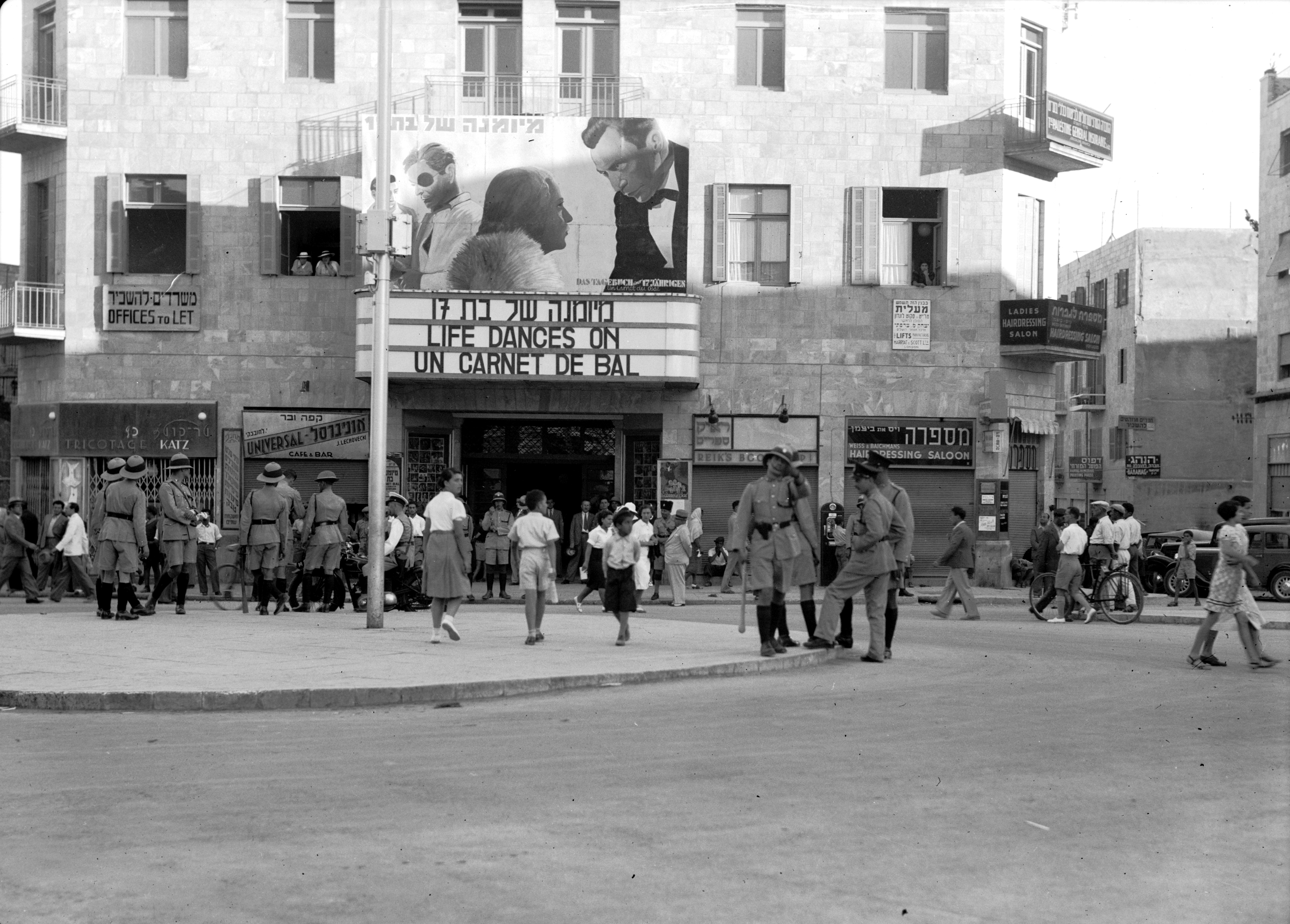 Disturbance. Police activities on Jaffa Road on eve of Slomo Ben Yuosef's i.e., Shlomo Ben-Yosef's hanging, June 28, '38. Photograph shows soldiers and others in front of the Zion Cinema, Zion Circle, Jerusalem.